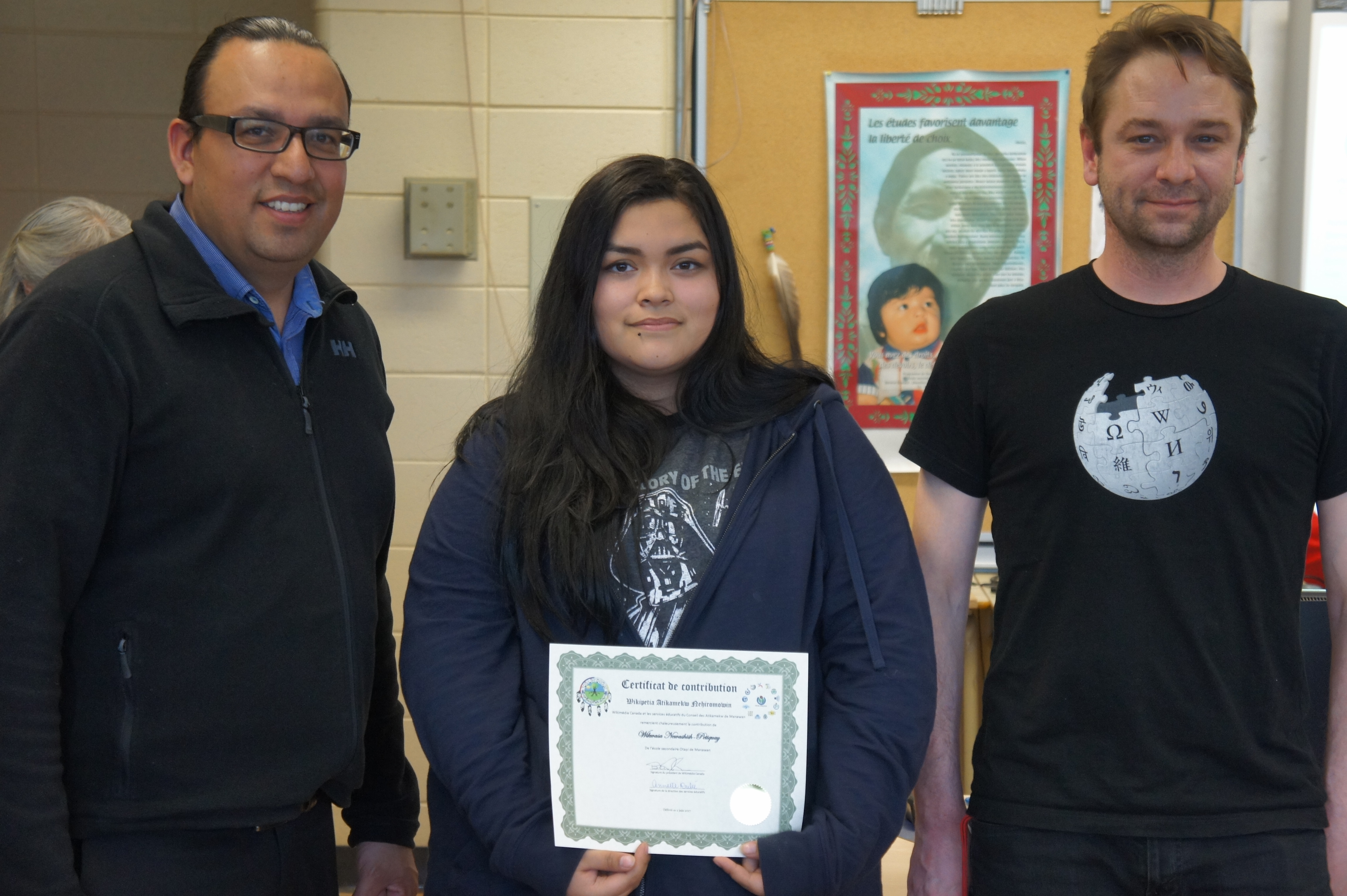 Presentation of a certificate of participation in the project Wikipetcia Atikamekw Nehiromowin (Atikamekw Wikipedia) to Wikwasa Newashish Petiquay (User:WiwaNewashishPetiquay), Otapi School, Manawan, Nitaskinan